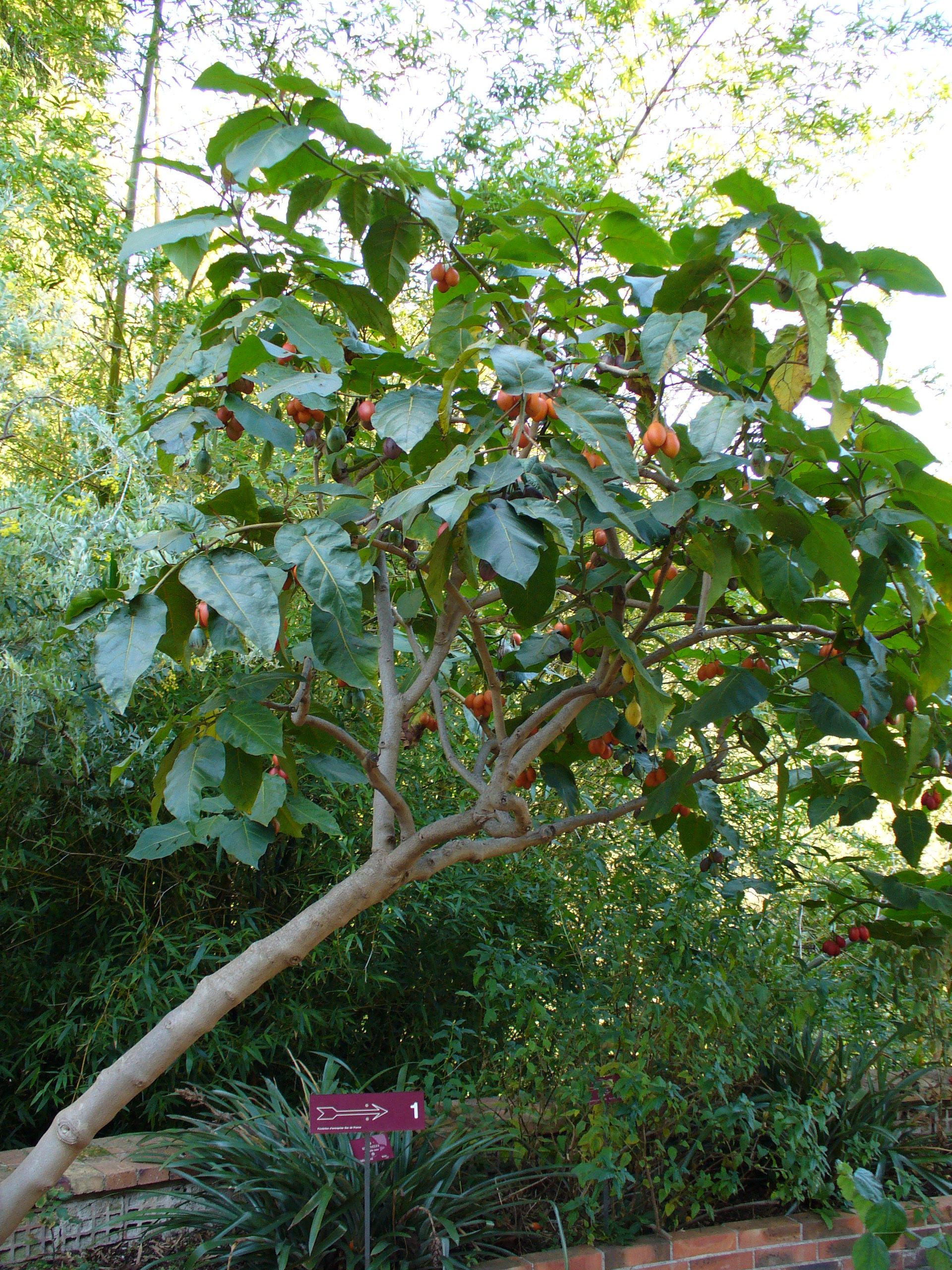 Tree tomato (Solanum betaceum) or Tamarillo in the Val Rahmeh botanical garden, Menton, France